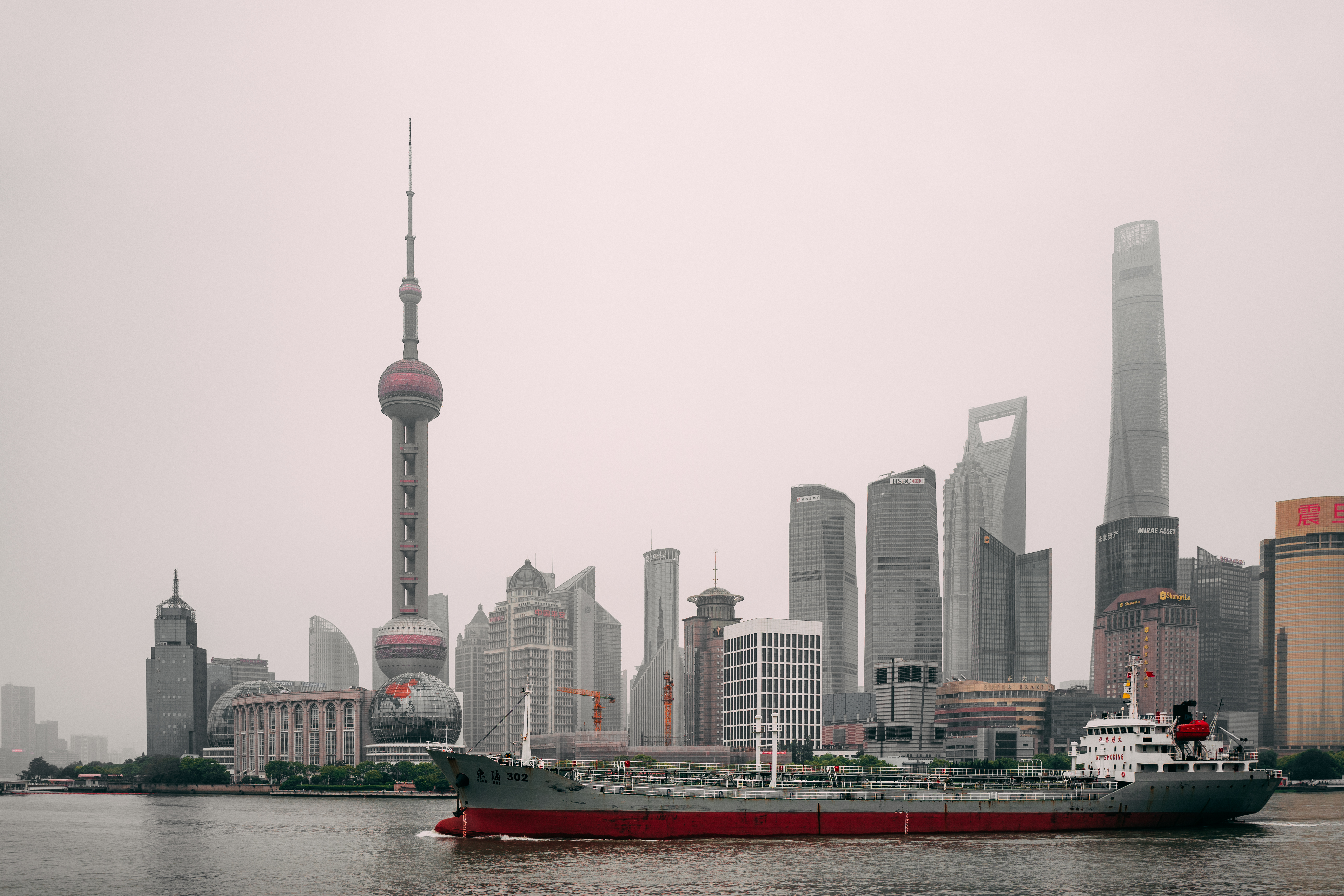 Shanghai Skyline, seen from the Bund Site